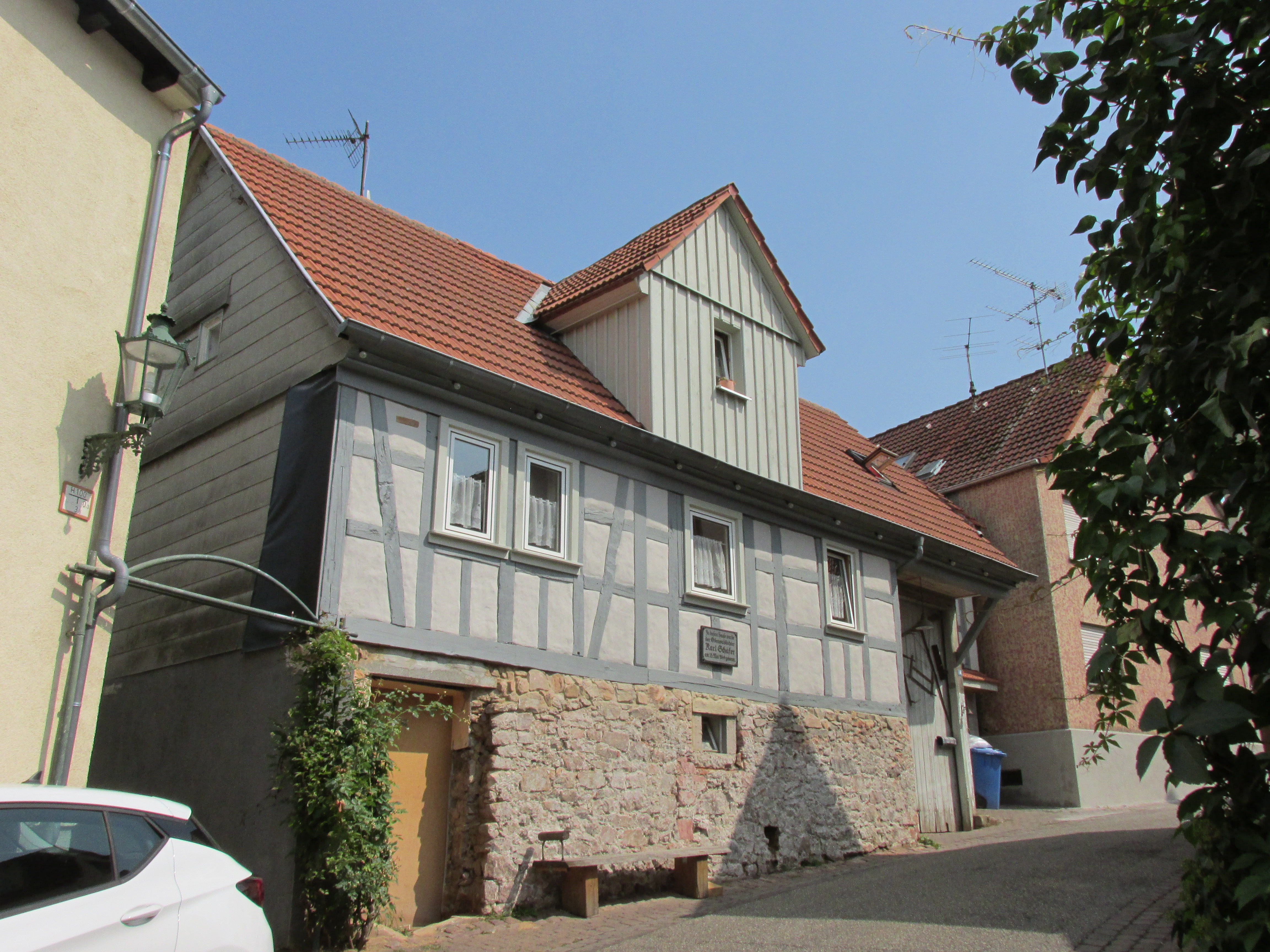 Römerberg 14, Brensbach, Germany